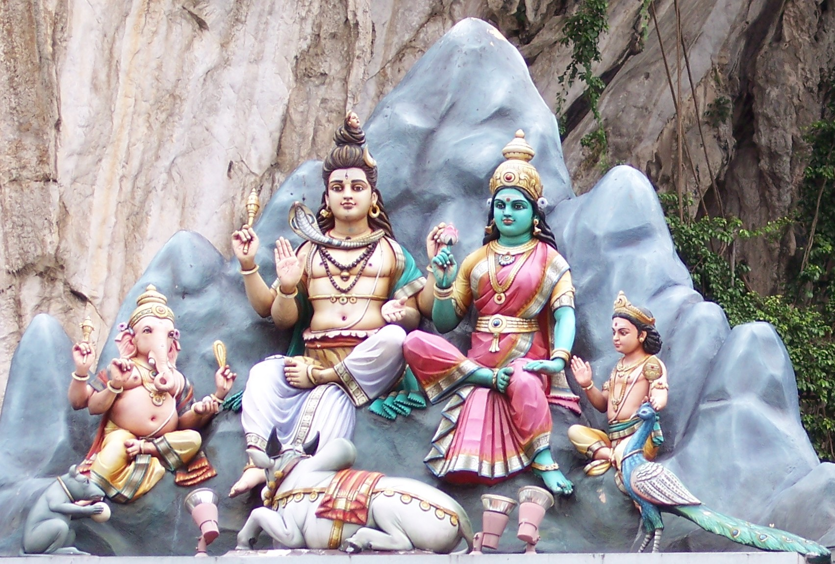 View of batu caves